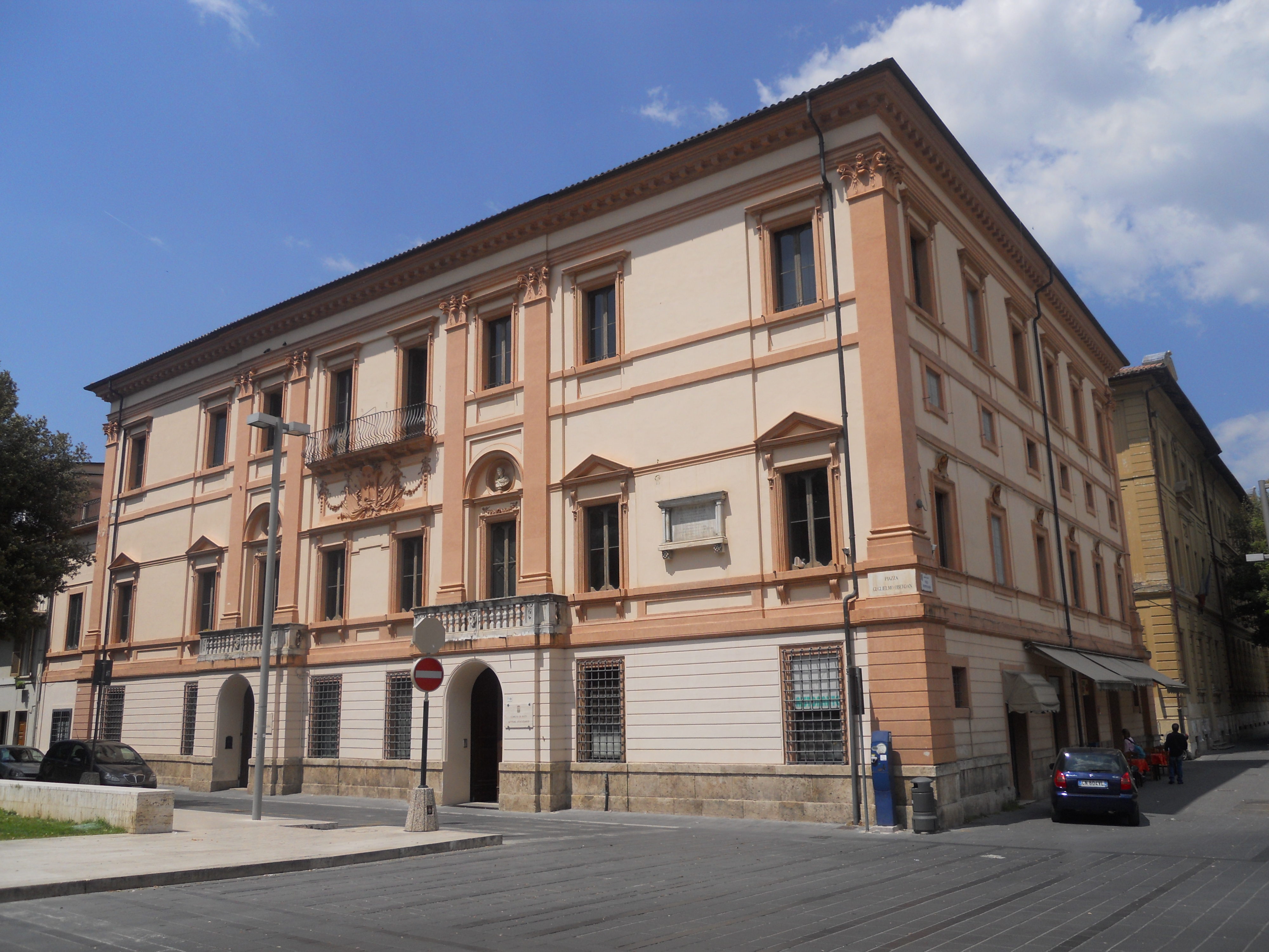 Ricci palace - Rieti, Italy